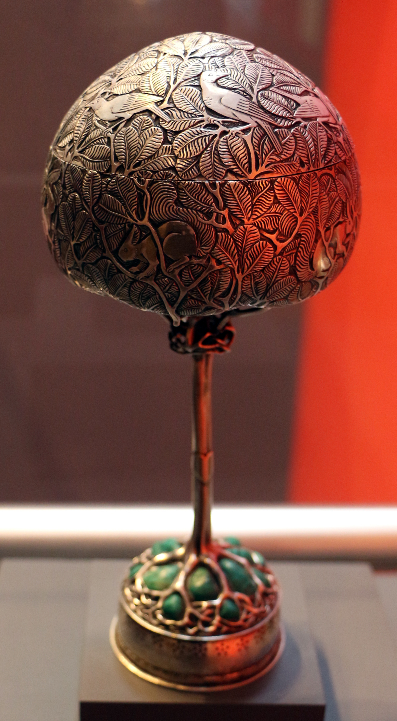 Decorative arts in the Musée d'Orsay